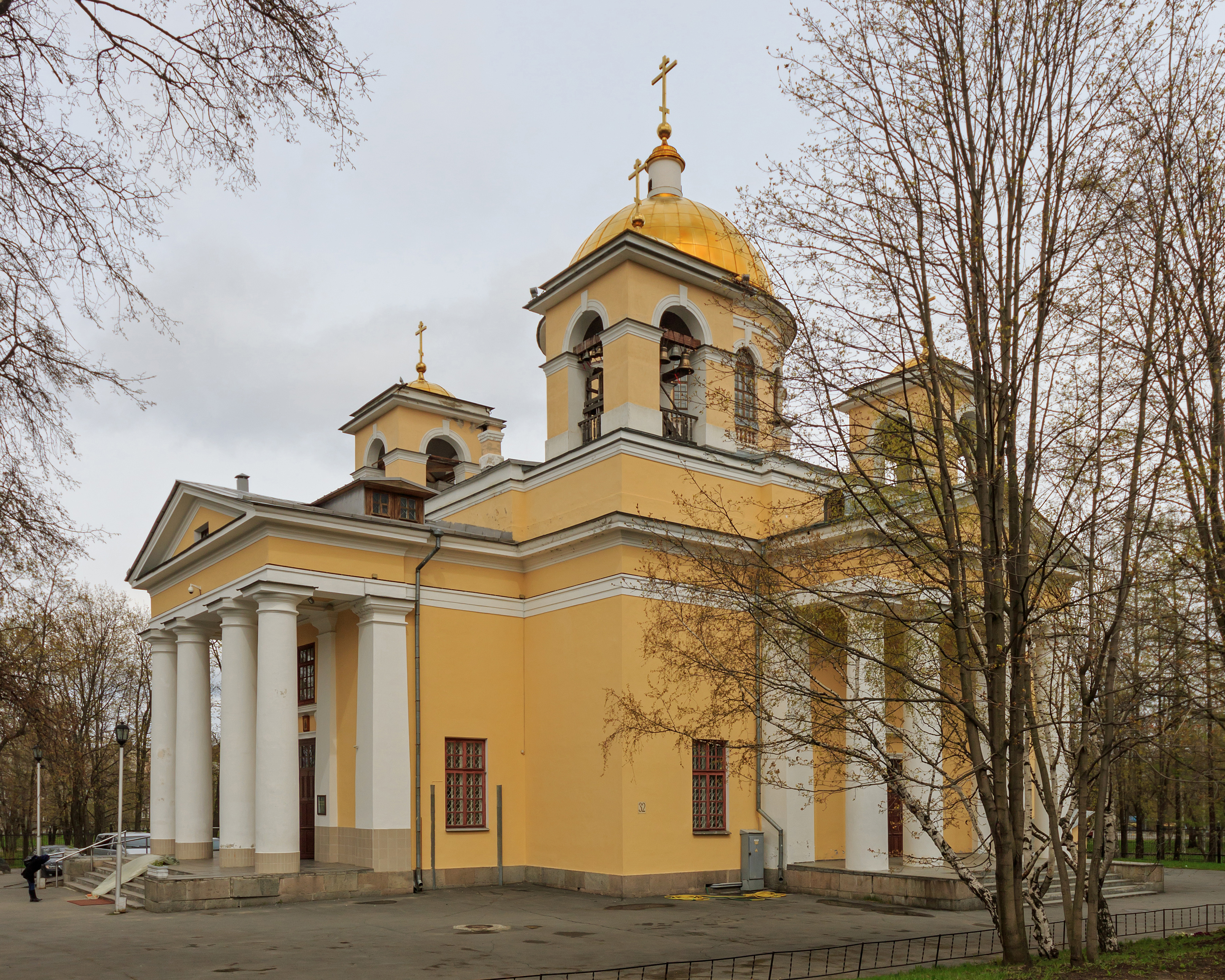 Alexander Nevsky Cathedral in Petrozavodsk, Republic of Karelia (Russia).